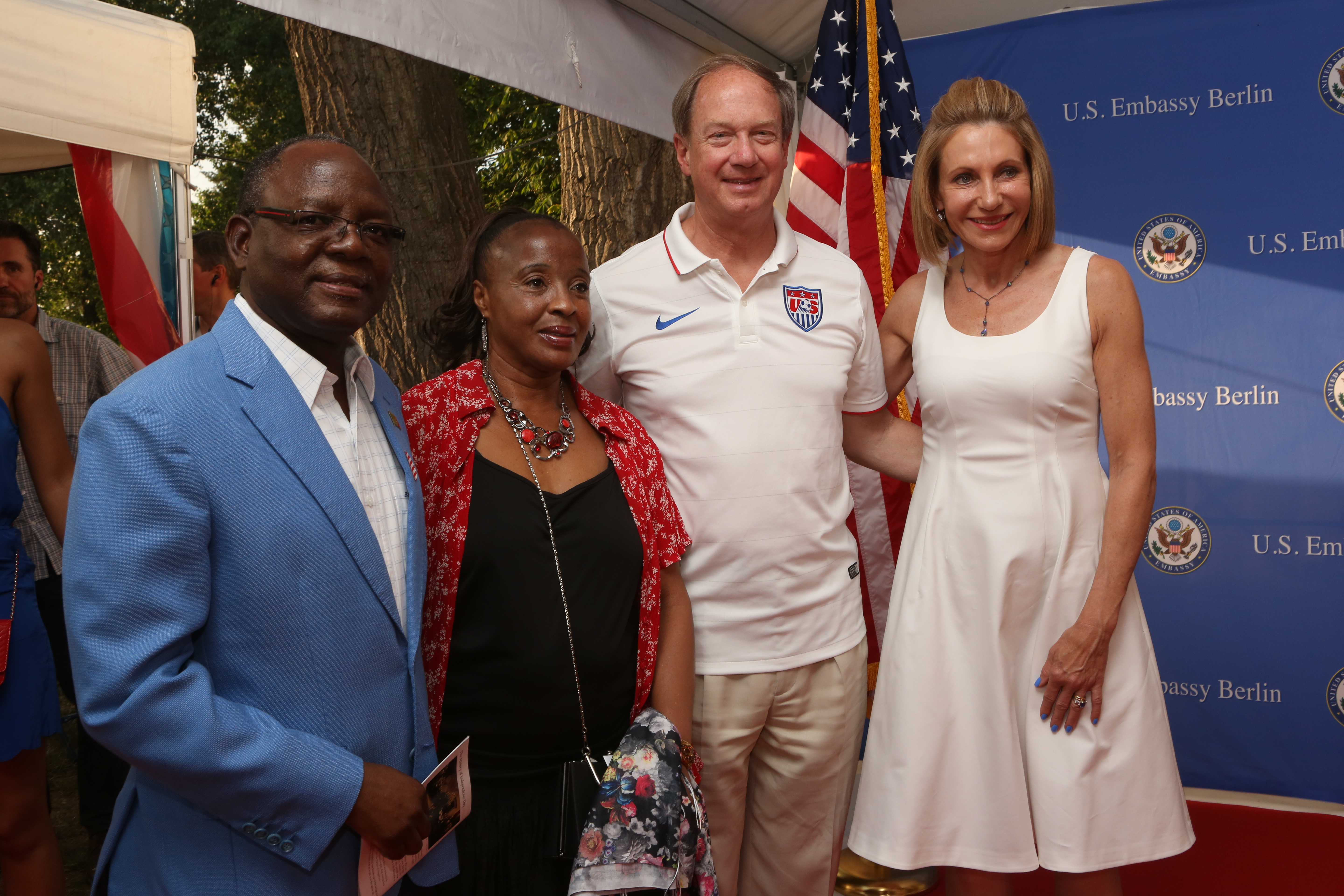 L to R: Bwalya Stanley Kasonde Chiti, Ms. Chiti ?, John B. Emerson, and Kimberly Emerson, Independence Day in Berlin 2015